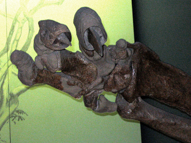 Hand of fossil Eremotherium ground sloth skeleton at the National Museum of Natural History.